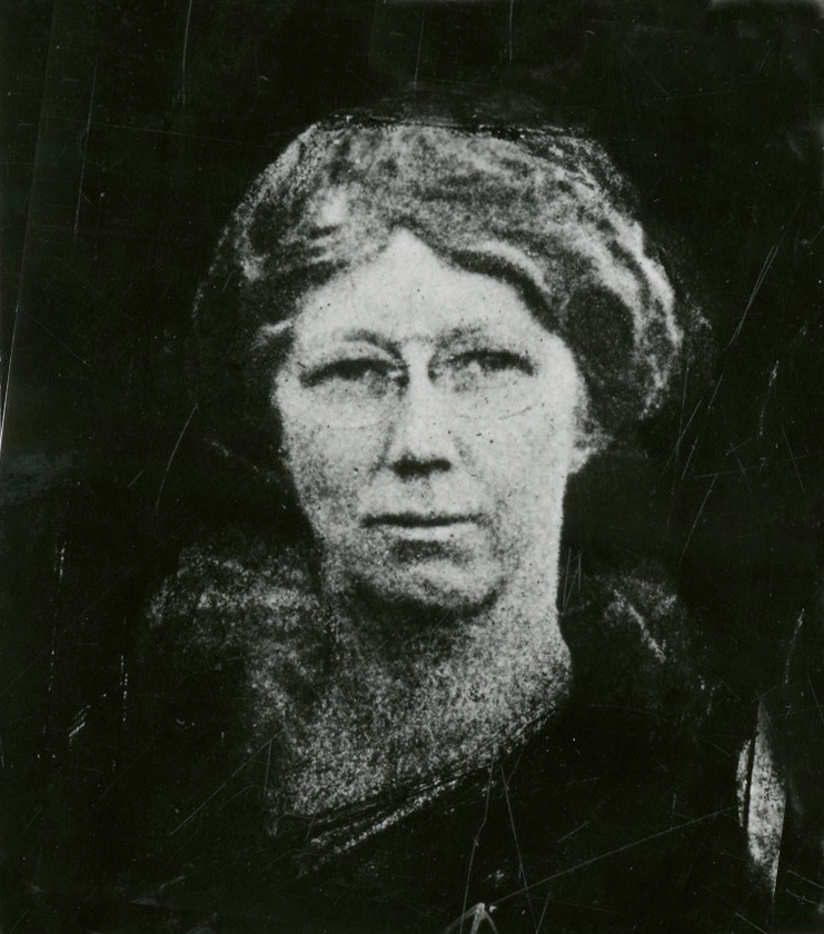 U.S. Department of Agriculture (USDA) botanist Edna H. Fawcett (born 1879) started as a technician and became an assistant pathologist in 1930.